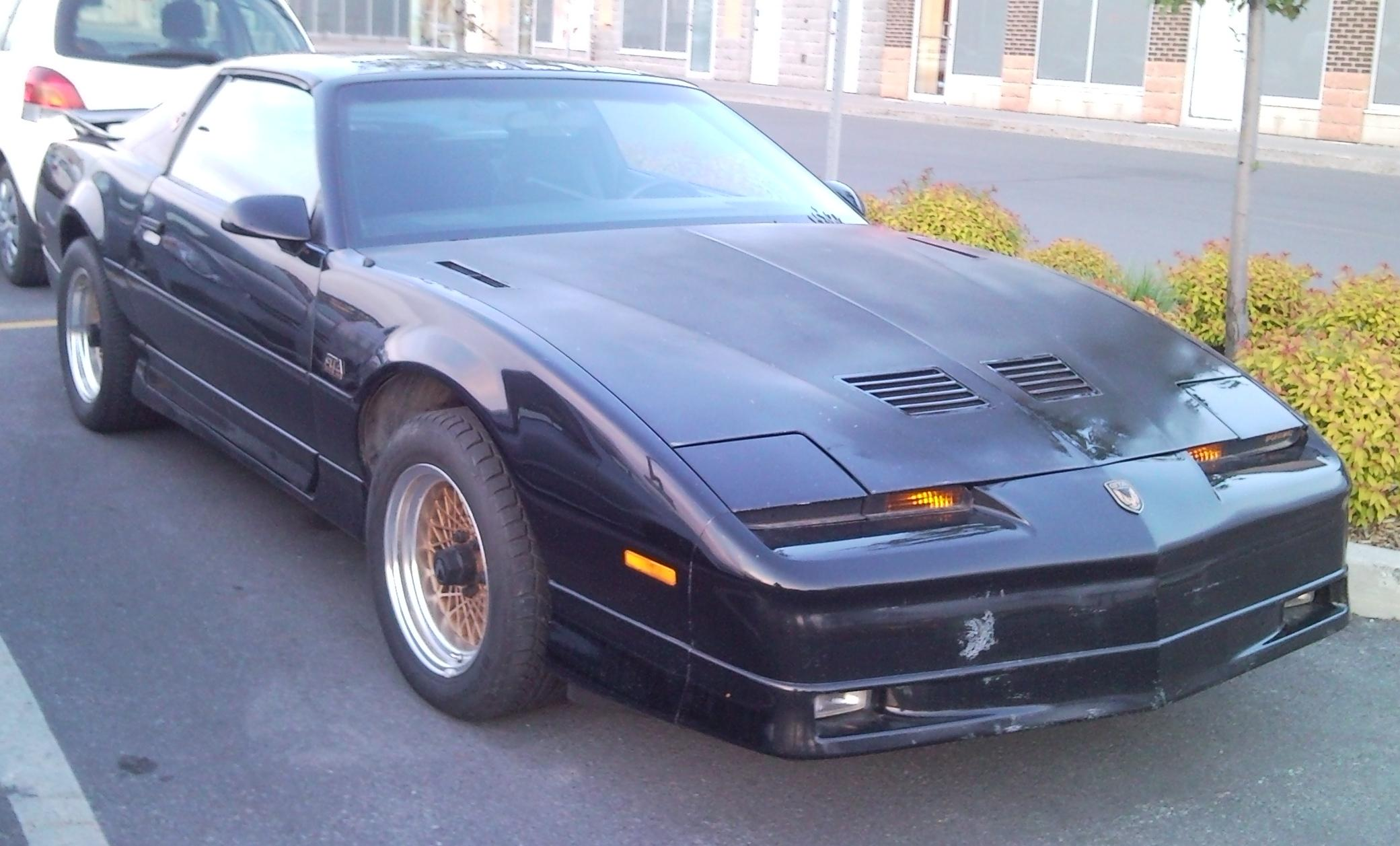 Pontiac Trans Am photographed in Laval, Quebec, Canada at Les chauds vendredis.